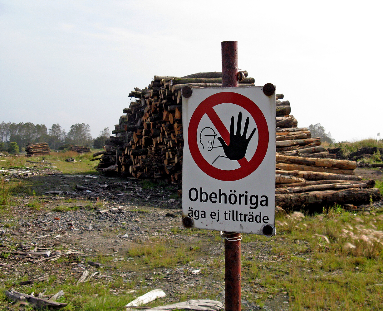 Prohibitory sign at lumber storage in Sweden. The text roughly says "Unauthorized [persons] have no right to access".